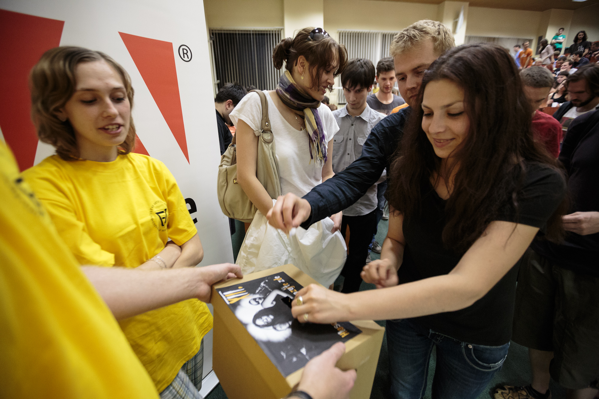 Faculty of Informatics Film Festival, Masaryk University, Brno, Czech RepublicEsperanto: Filmfestivalo de la Fakultato de informadiko, Masaryk-Universitato, Brno, Ĉeĥio